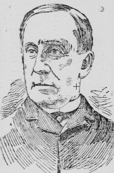 Ogden Hoffman, Jr. (Federal judge of California)